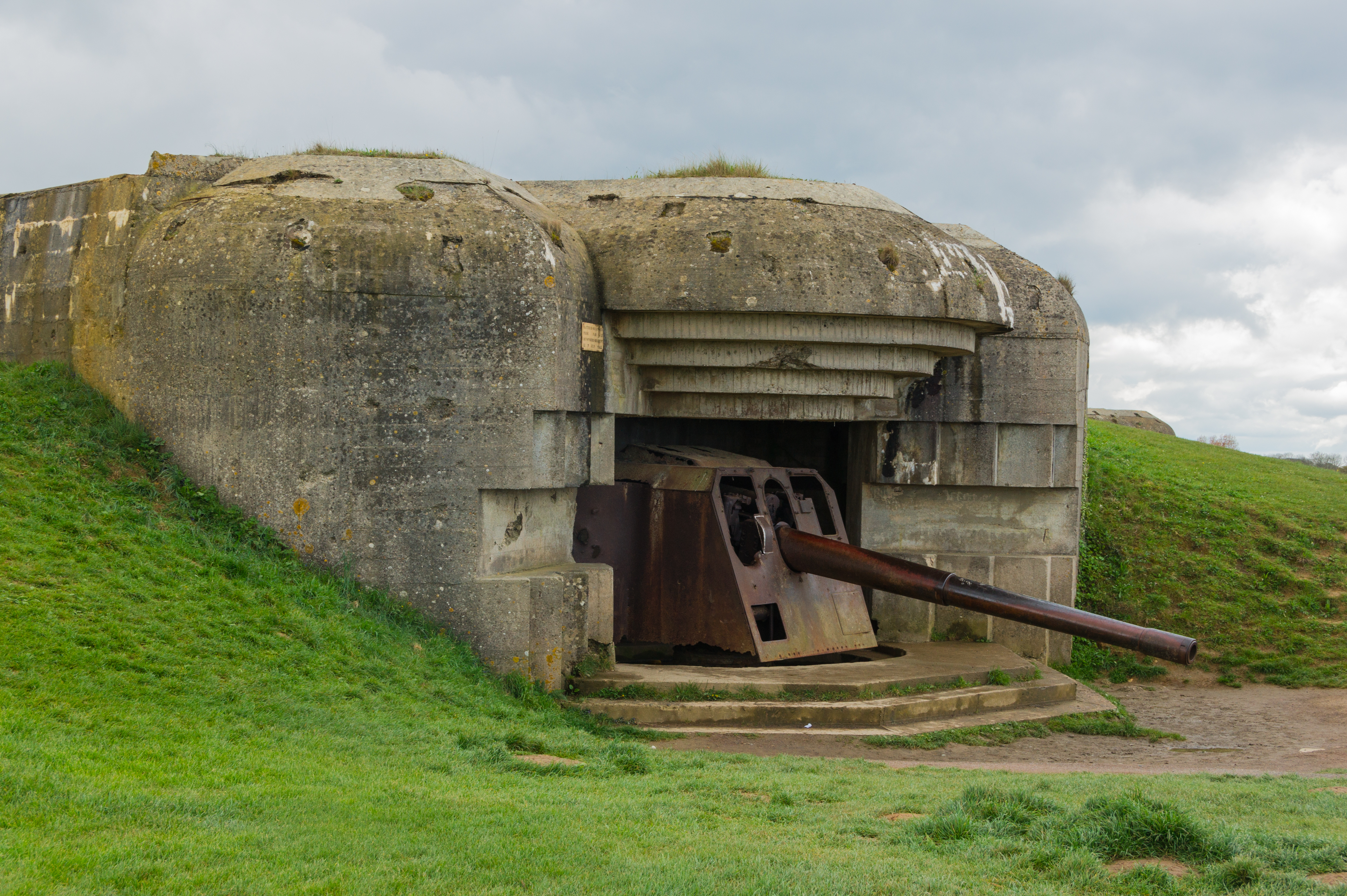 A bunker with gun at batterie Longues-sur-Mer (German Atlantic wall), Calvados, Normandy, France